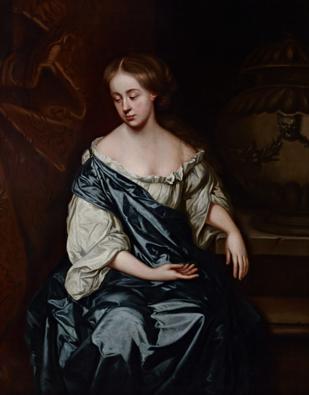 Portrait of Margaret Blagge Godolphin by Matthew Dixon, 1673.